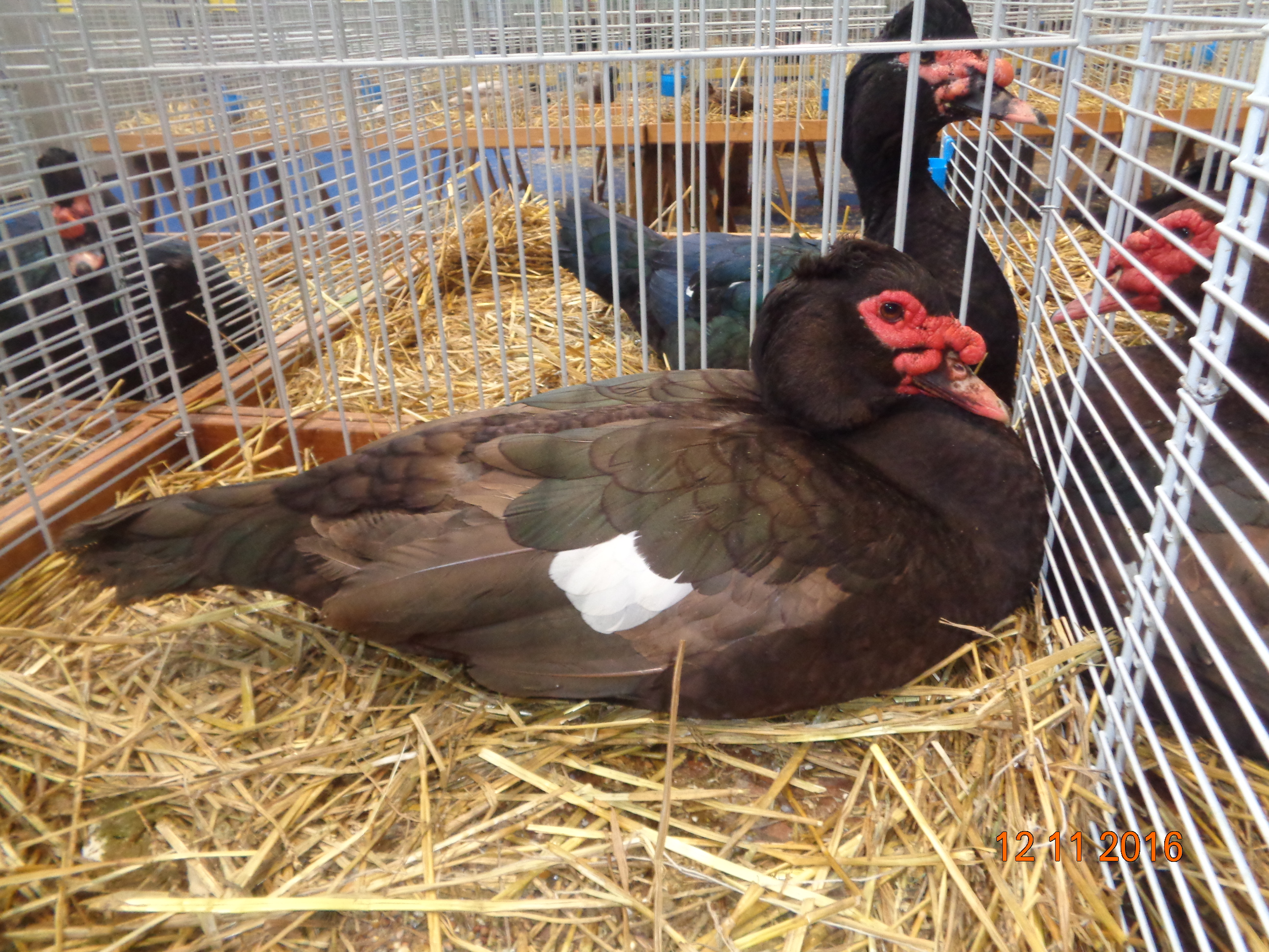 canard barbarie brun